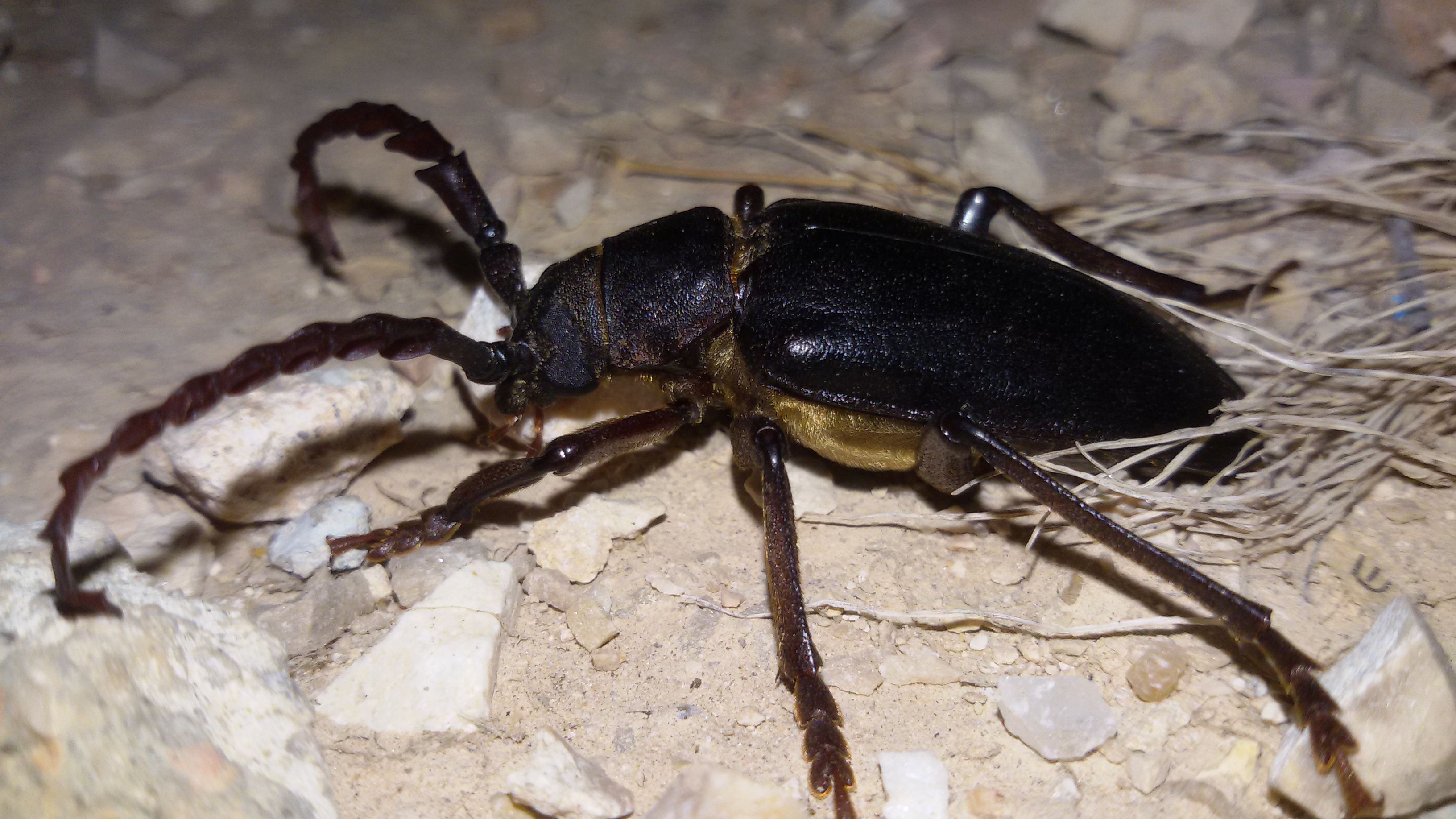 Male Prionus besikanus, black, about 3 cm body length, ventral side yellow, dorsal side black. Active at night